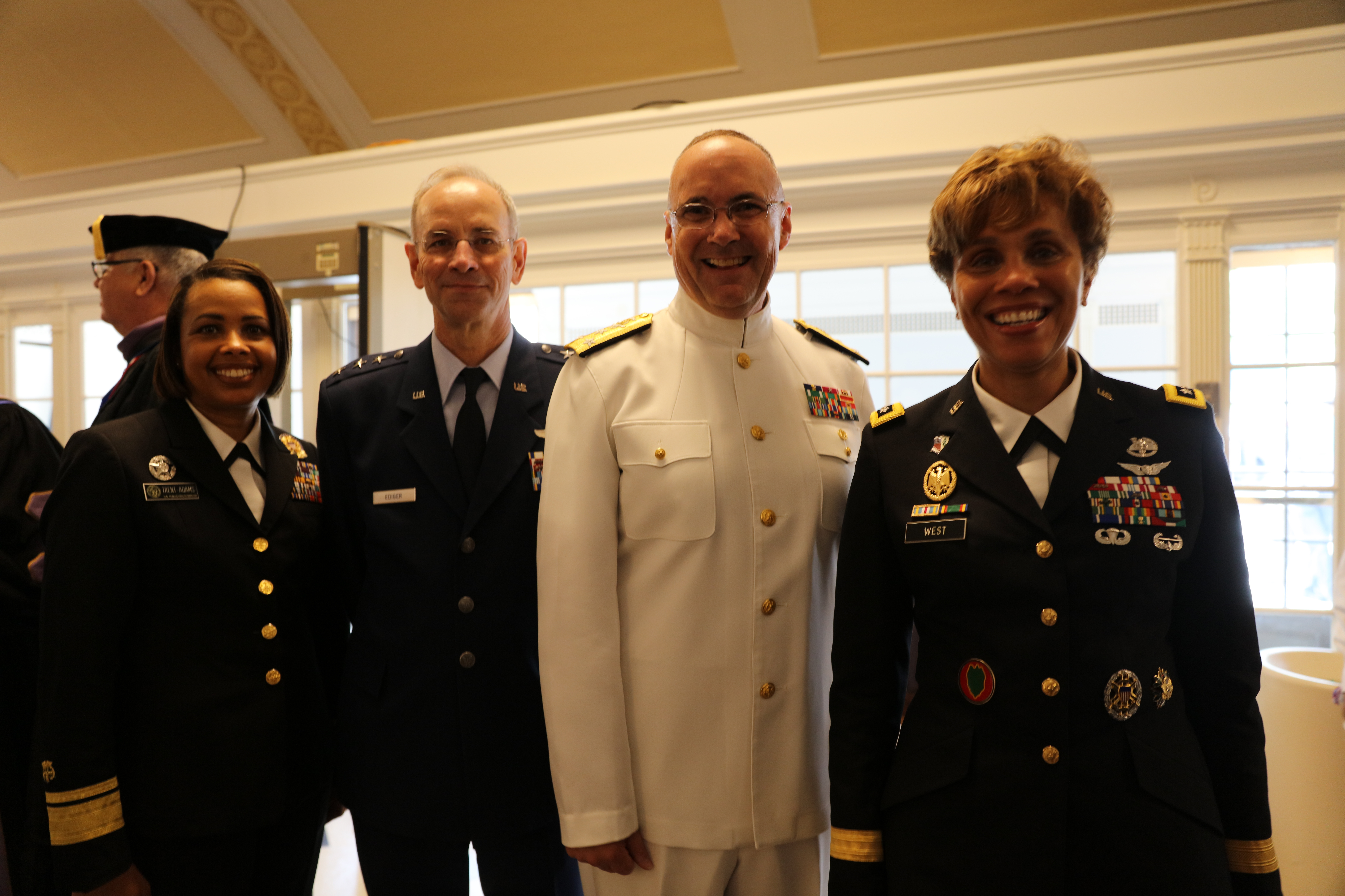 From left to right: U.S. Public Health Surgeon General, Rear Admiral Sylvia Trent-Adams; U.S. Air Force Surgeon General, Lt. Gen. Mark Ediger; U.S. Navy Surgeon General, Vice Admiral Forrest Faison; and U.S. Army Surgeon General, Lt. Gen. Nadja West. During the Uniformed Services University of the Health Sciences commencement exercise on May 20, graduating medical students recited their respective service commissioning oath, led individually by each of the Surgeon Generals.